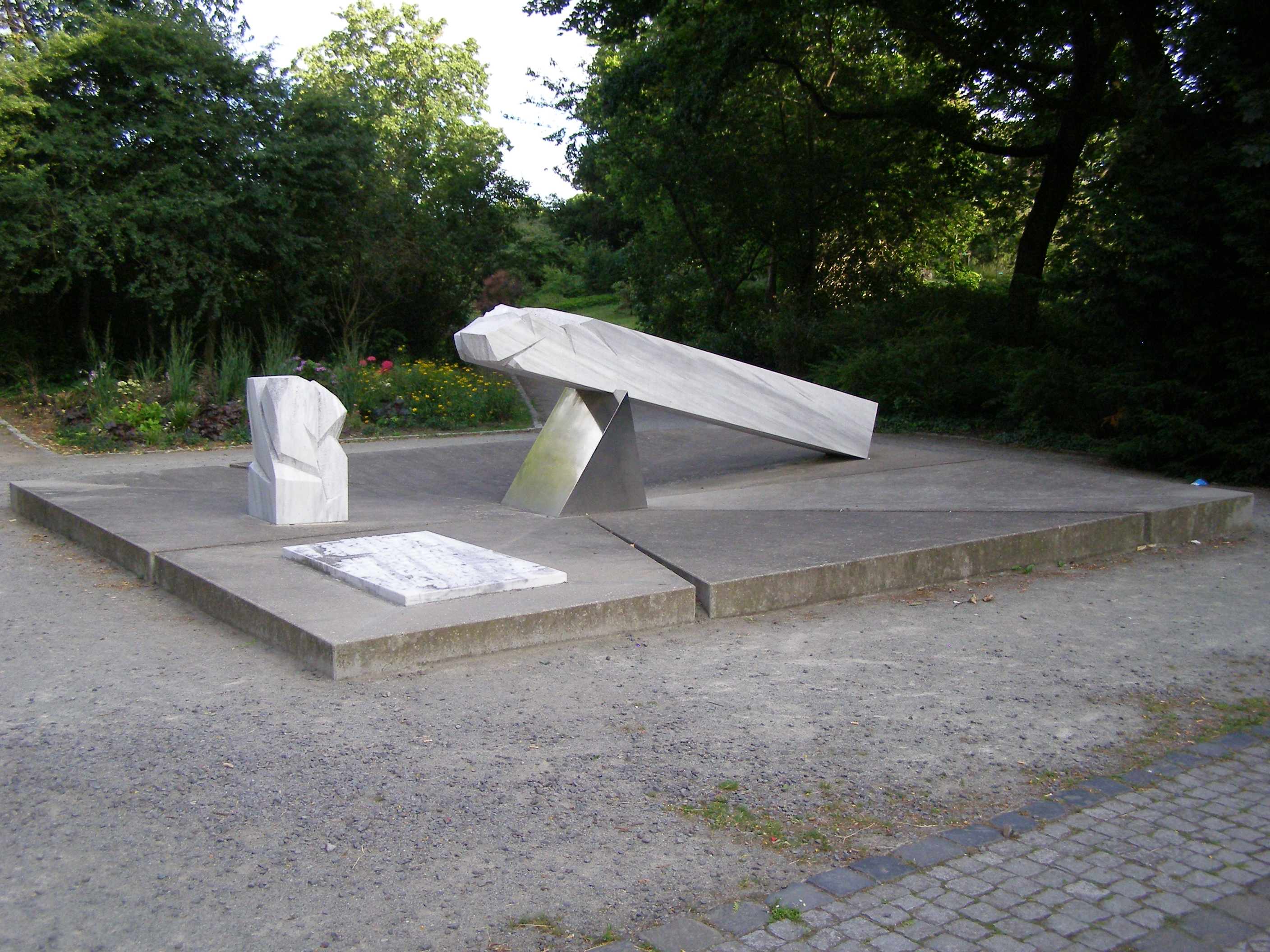 Magdeburg - monument to Roma and Sinti people murdered between 1933-45